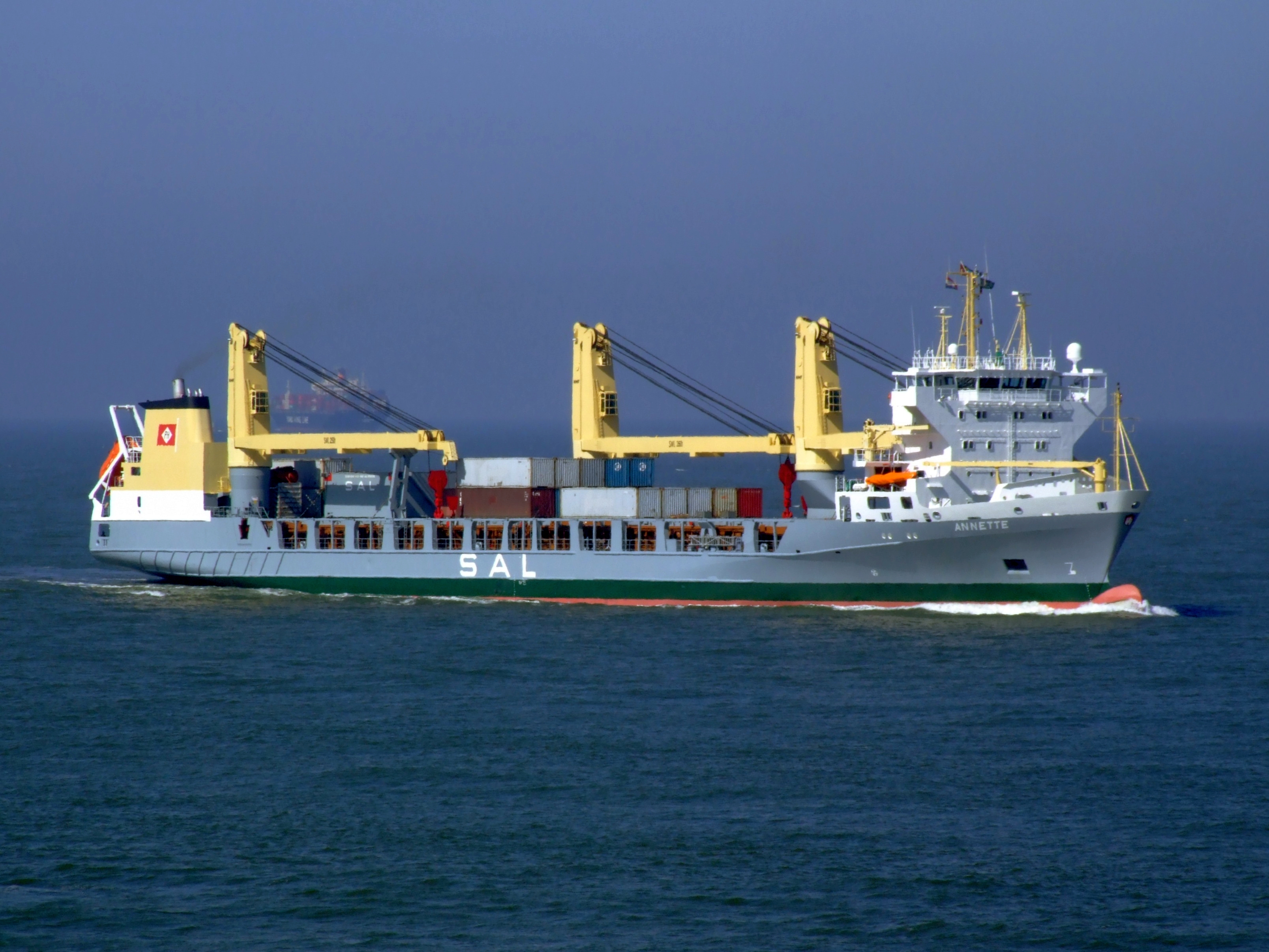 Photographed at the "Port of Rotterdam", The Netherlands.